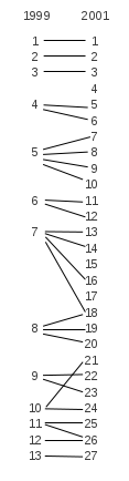 Variants by section between versions 1999 and 2001 of Alice Munro's story "The Bear Came Over the Mountain"